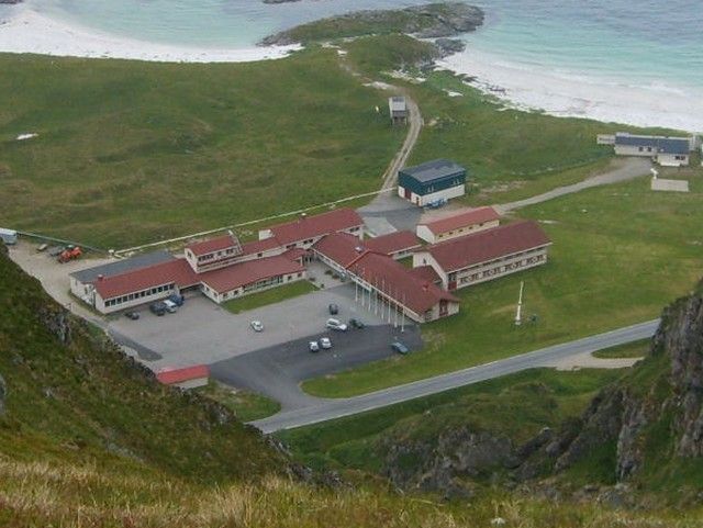 View to Andøya Rocket Range on summer